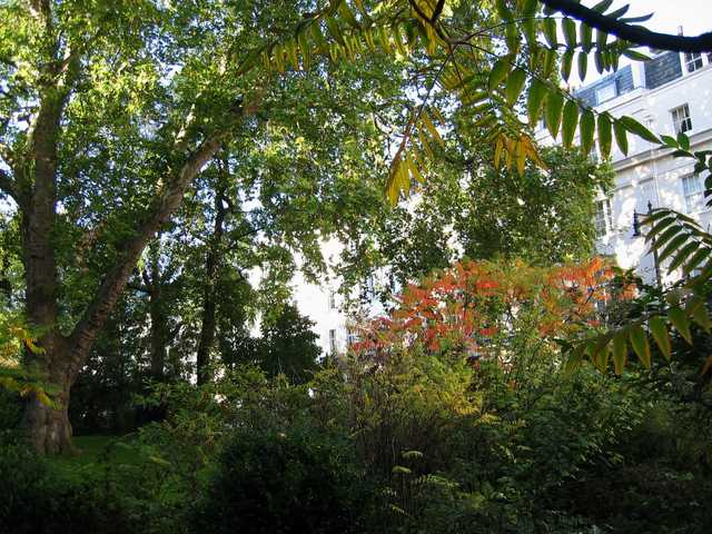 Chester Square Gardens Very much NOT a public space, in the centre of Chester Square, Belgravia.